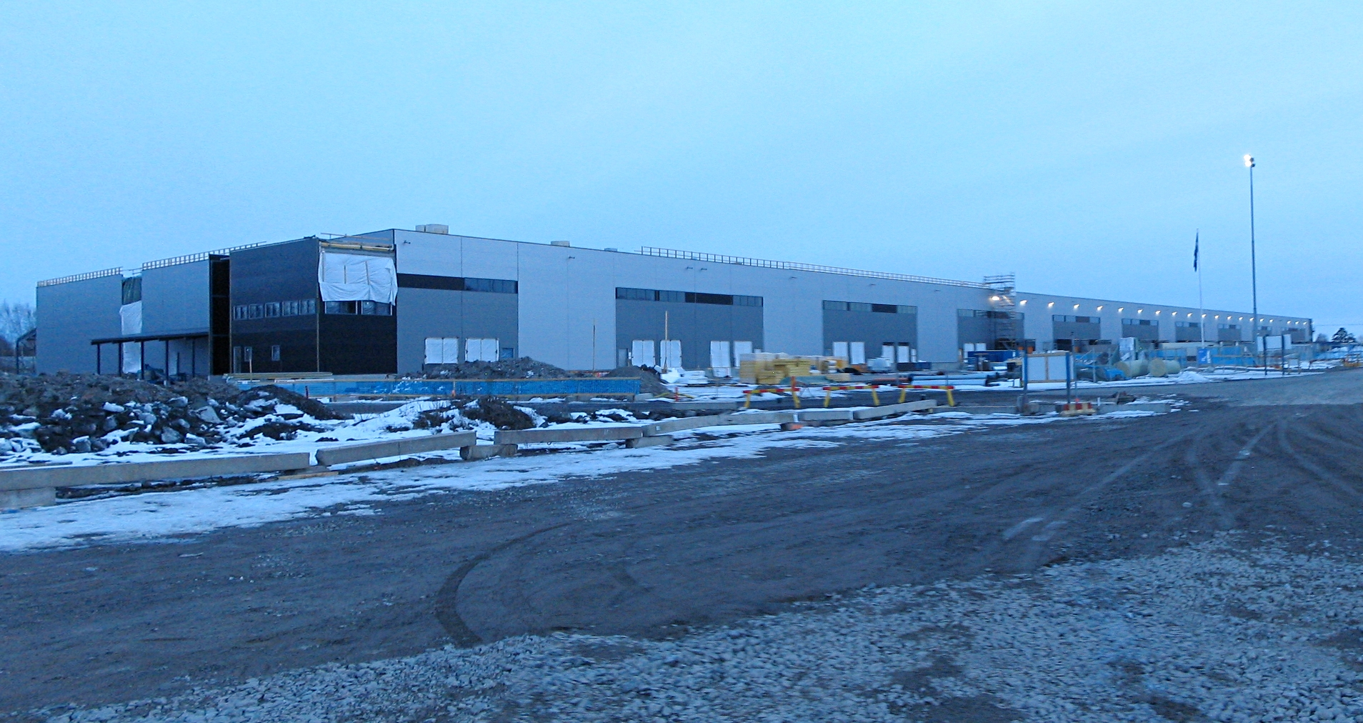 Logistic terminal in Turku, Finlan. near by seaport, used by Schenker Logistics